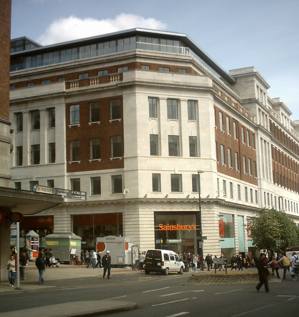 Sainsbury's on the Headrow in Leeds, West Yorkshire, UK. This was in a development of the former Allders shop in which a Sainsbury's, TK Maxx and an Argos have opened. As of the date of taking two units are still empty. Taken on the 9th May 2009.